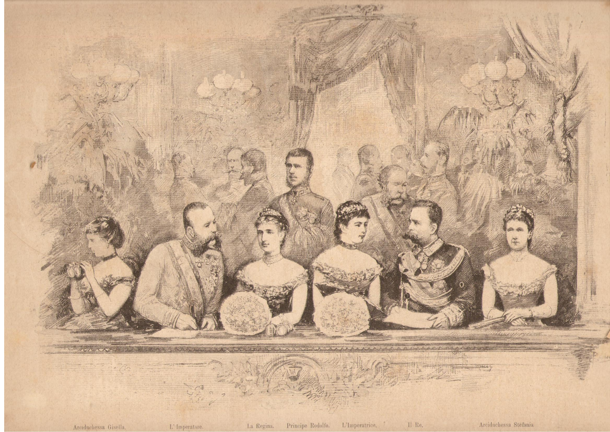 The Emperor Franz Joseph I of Austria and King of Italy Umberto I in Vienna in 1881.